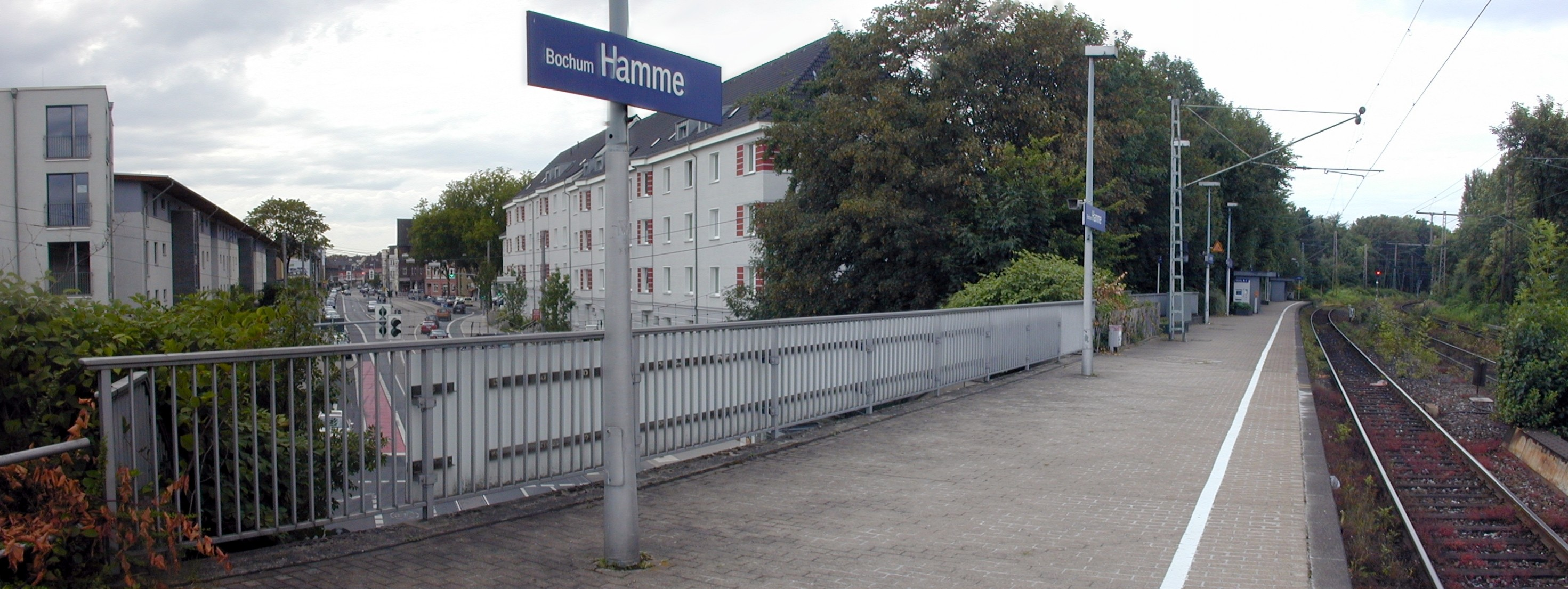 Bahnhof Bochum-Hamme This panoramic image was created with Autostitch. Stitched images may differ from reality.